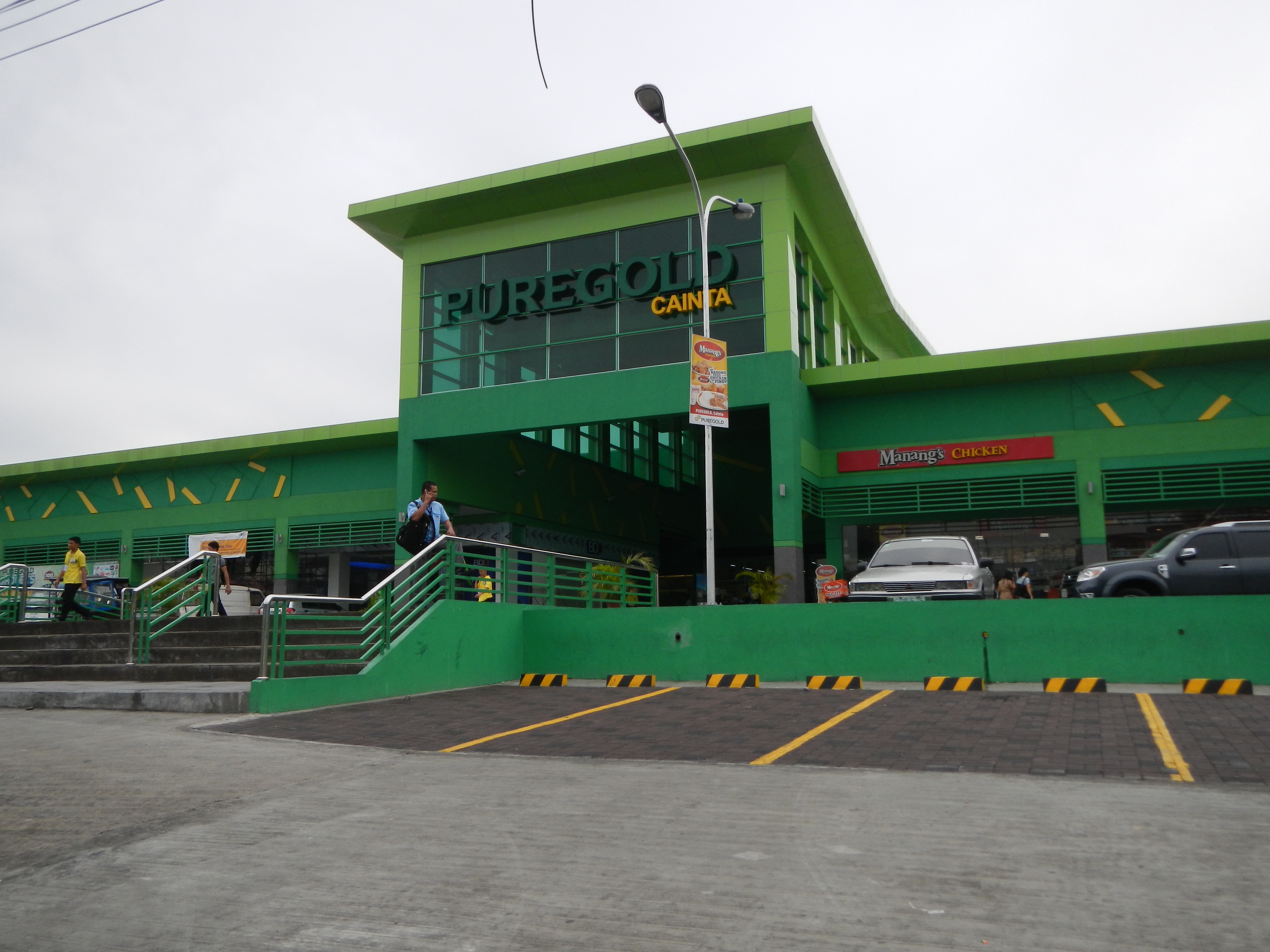 Puregold Cainta, Puregold Branch: PPCI - Q-Plaza Cainta: G/F Unit GS Q-Plaza Commercial Center, Felix Avenue corner Marcos Highway, Barangay San Isidro, Cainta, Rizal Operated by: Puregold Price Club, Inc. (PPCI) Coordinates: 14°37'10"N 121°6'8"E[1] ---------[N.B. May 30, Monday, 2013 Photography of Cainta, Rizal Town Hall and Taytay, Rizal[2]: 80% cloudy and 20% sunny weather using my Nikon AW 100 waterproof shockproof camera. From Bulacan at 10:15 a.m., I took photo at 1:27 pm of Cainta Puregold and Town Hall and reached Taytay, Rizal's Old Town Hall at 2:03 pm; I finished Taytay, Rizal photography at 6:27 p.m., and arrived at Bulacan at 9:30 pm after 3+ hours of travel by bus, and started uploading via slow internet at 10:27 pm - I hereby certify that these raw, original and unedited photos are exclusive for Commons and Wikipedia never uploaded in any Internet or any site, and for the public domain without any condition.]